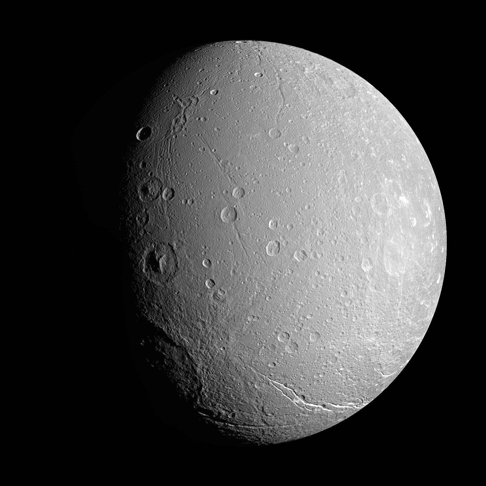 A NASA cassini image of dione a moon of Saturn.